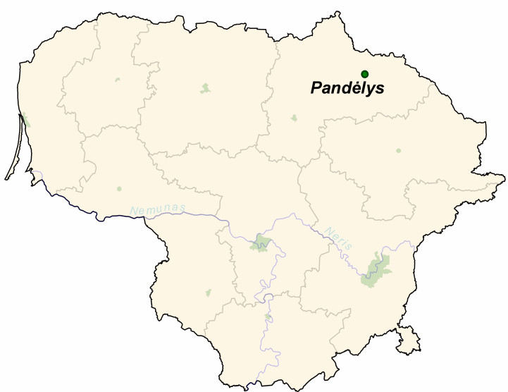 Pandėlys on the map of Lithuania